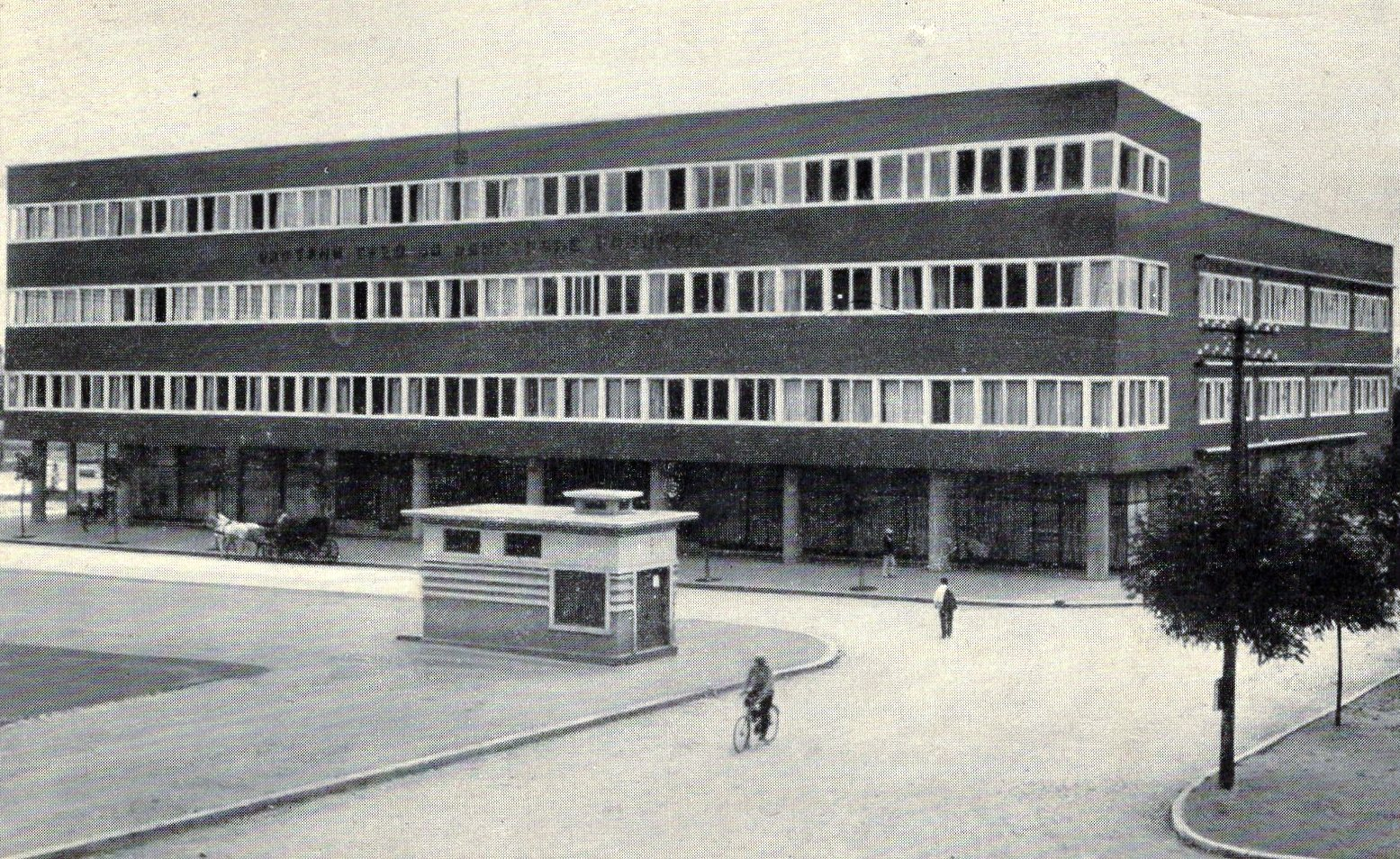 Postcard of Skopje, City Hospital building, 1930 This media file is produced by Wikipedian in Residence in Category:Wikipedian in Residence at DARM in 2016.